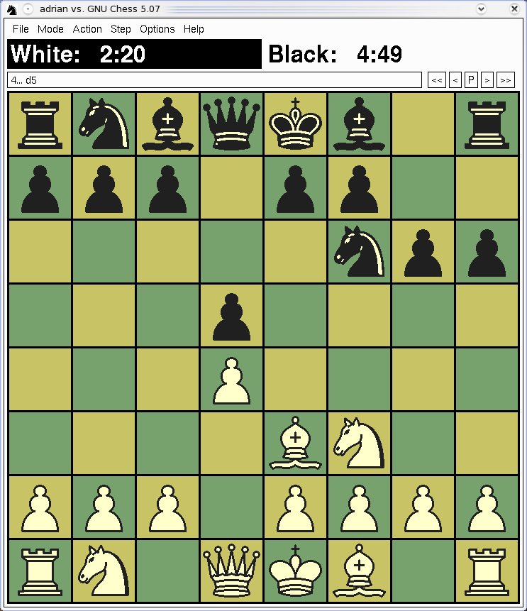 GNU Chess + Xboard 4.2.7 on KDE 4.2.2 desktop in operating system Fedora 10.